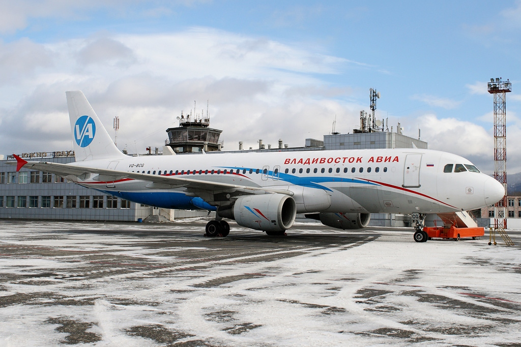 Ex EC-HGY Iberia.